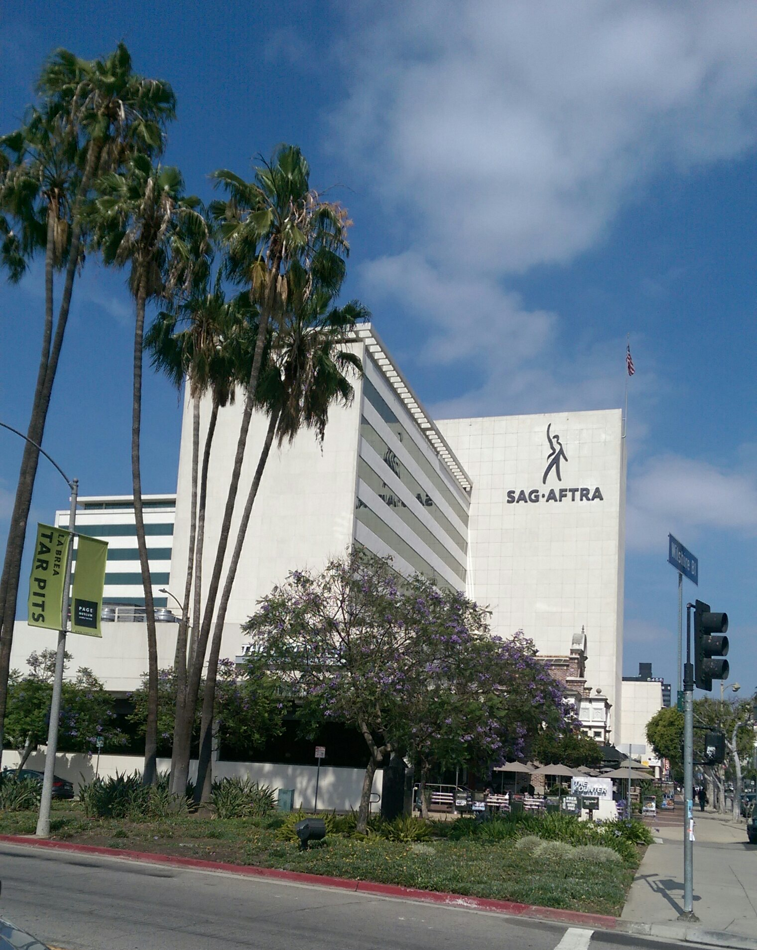 The headquarters of the Screen Actors Guild - American Federation of Television and Radio Artists, in Los Angeles, California. Photo by Jim Heaphy.